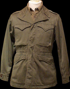 A photo of an M-1943 Field Jacket.